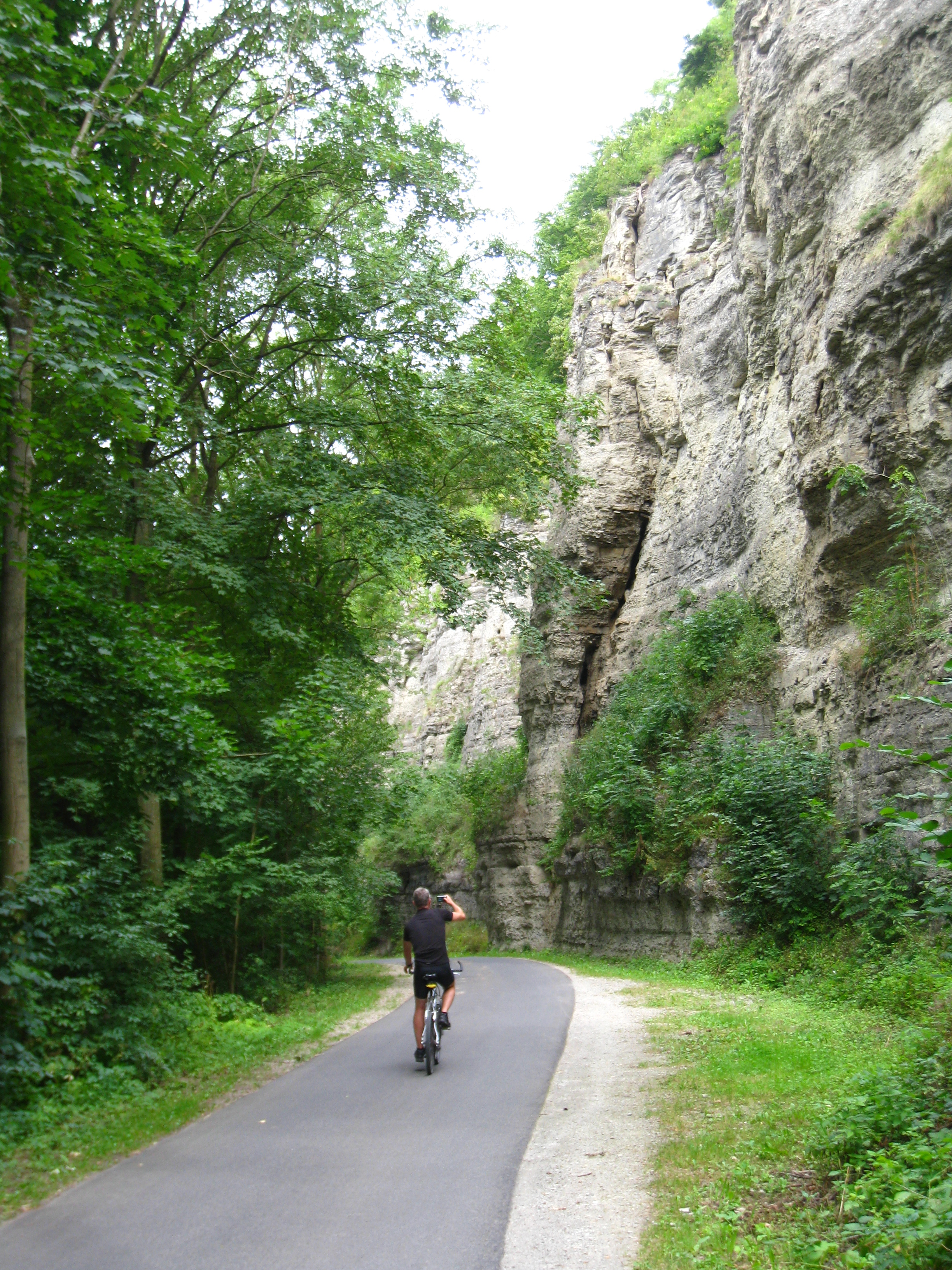 Werratal-radweg in Werra valley